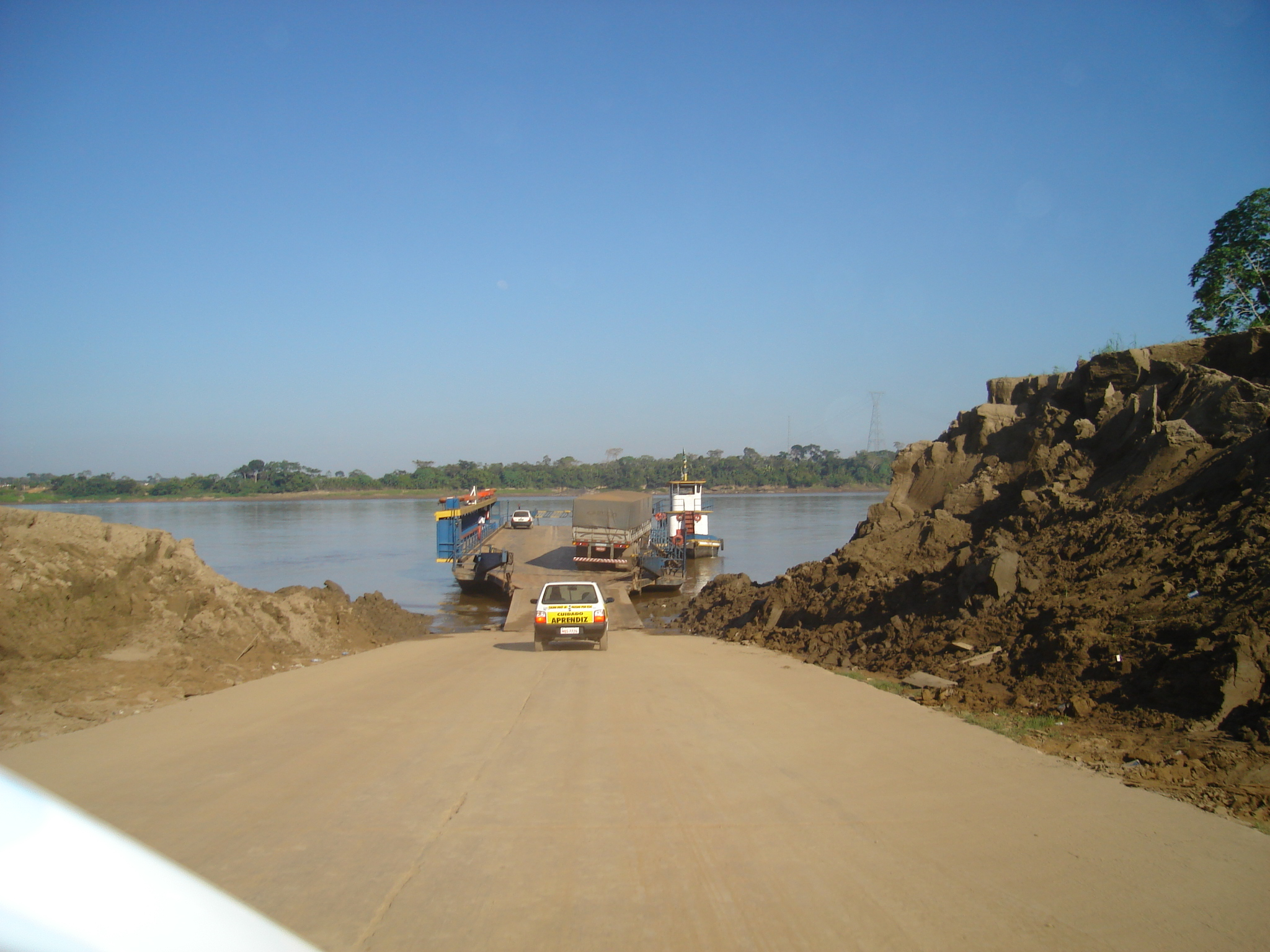 Some cars going in a ferry to cross the Madeira River